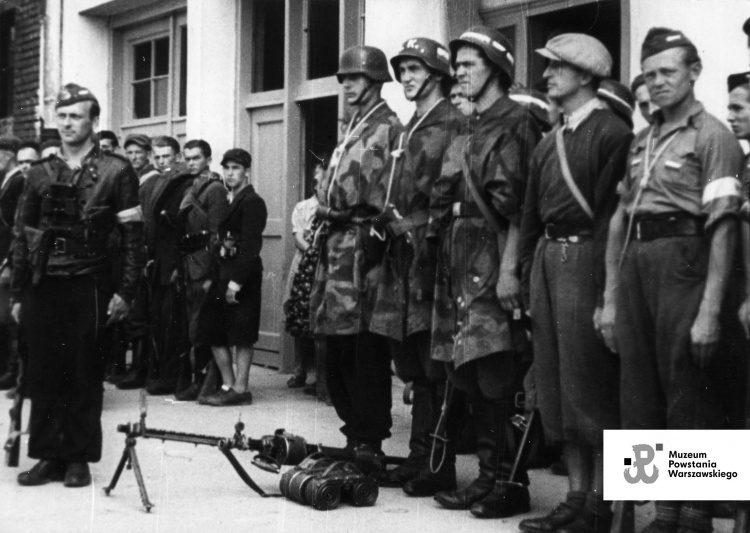 Warsaw Uprising: "Krawiec" Company from "Ryś" Battalion at 134 Puławska Street in Mokotów district of Warsaw, during inspection by Stanisław Kamiński "Daniel". "Krawiec" Company just came from Kabacki Forest through Wilanów to Mokotów district bringing arms for "Baszta" Regiment. On the left company commander Stanisław Milczyński "Gryf". From the right in the first row: Władysław Zygański "Żuk" and Tadeusz Kozłowski "Kozak".